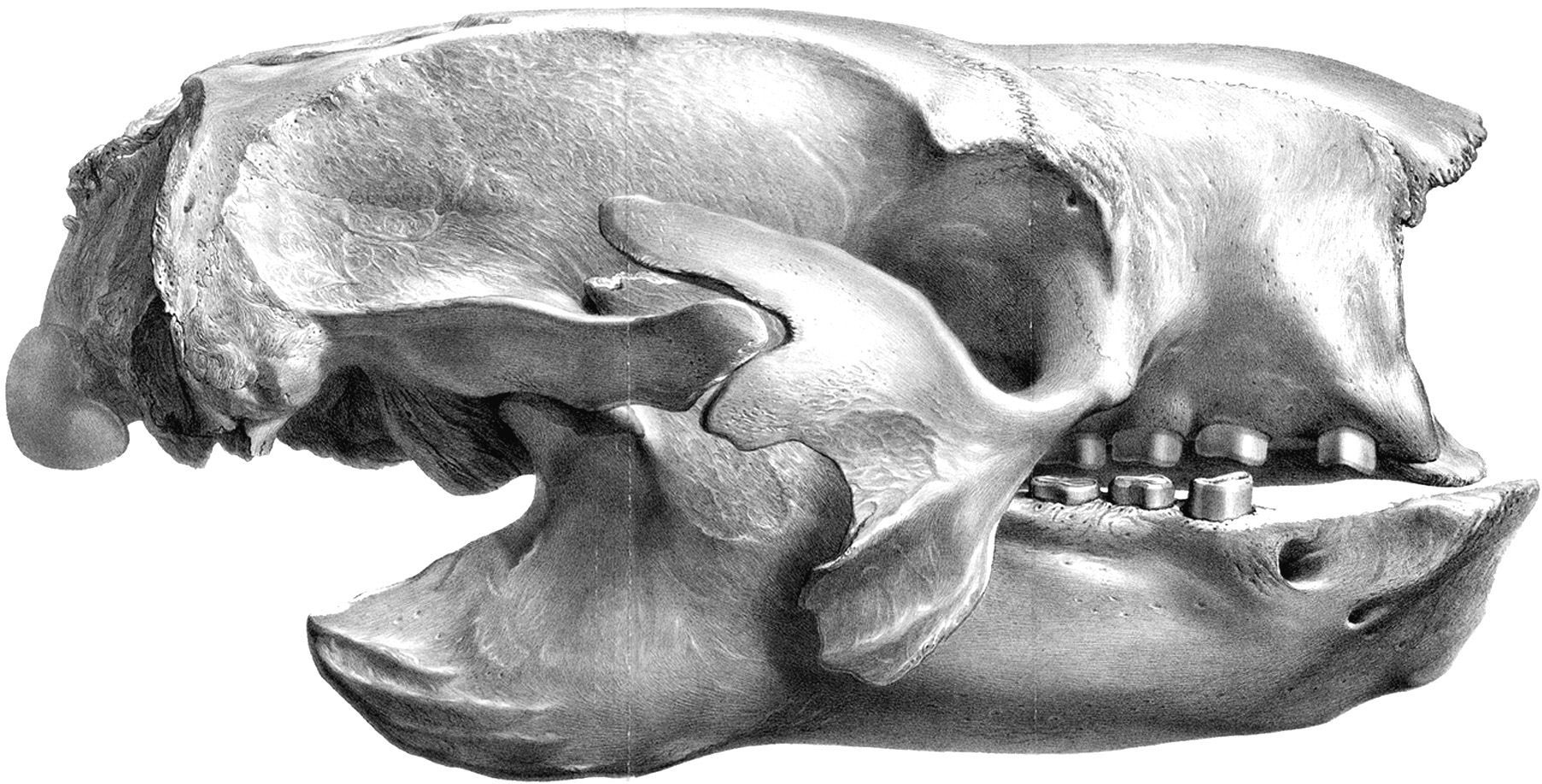 (A) Skull of Mylodon darwinii as featured in Reinhardt (1879). (B) Skull of Glossotherium robustum as featured by Owen (1842).